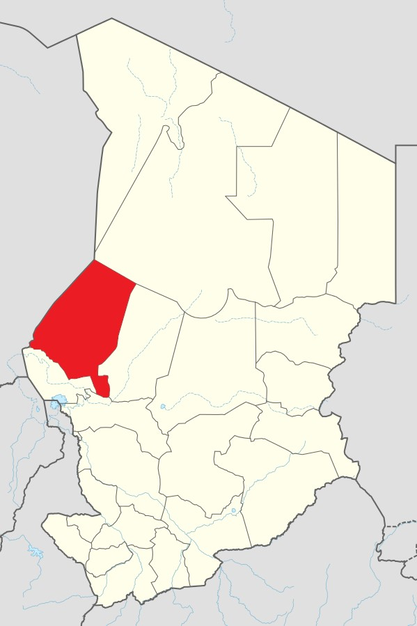 Map of Kanem Region in Chad